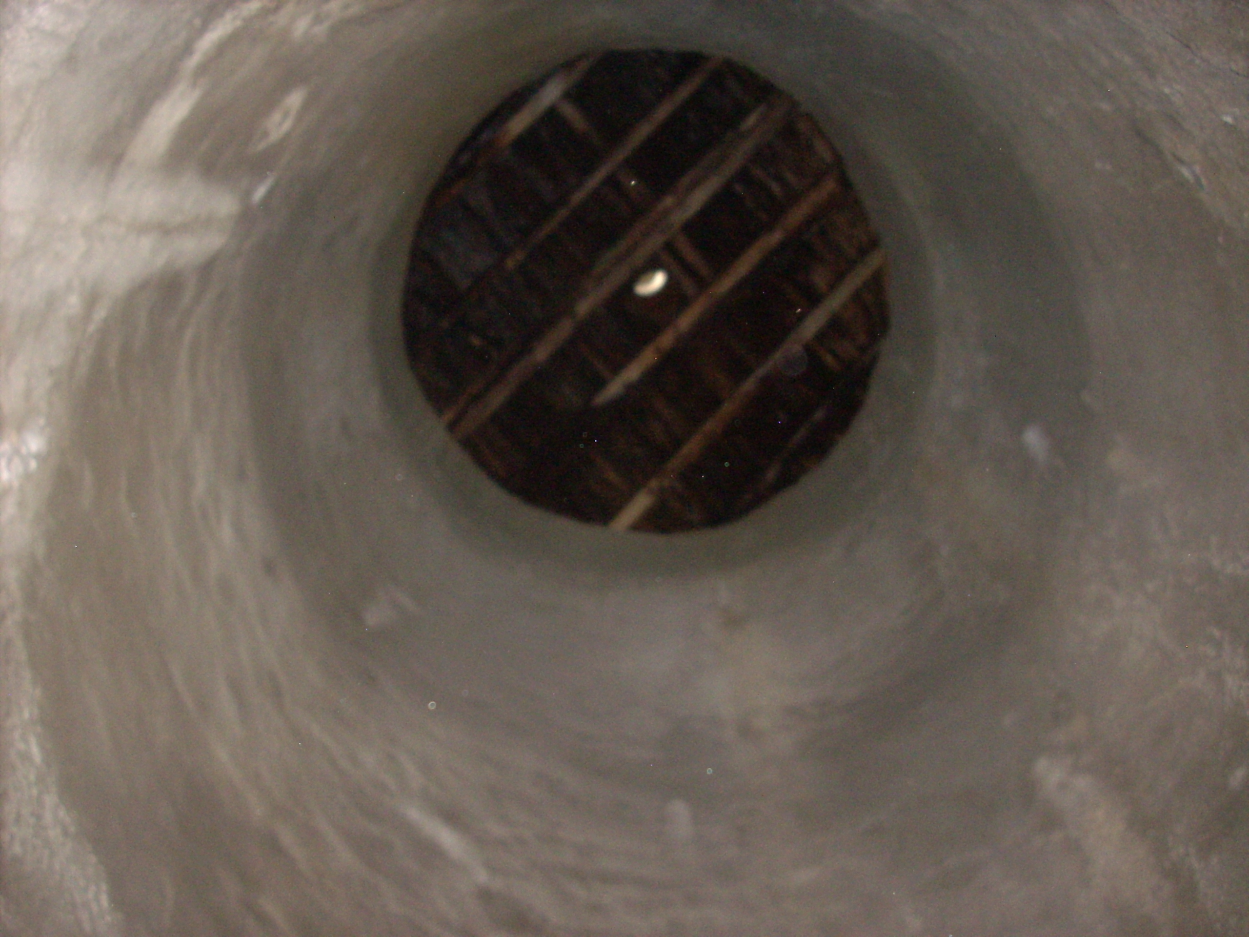 Shaft for mucking of underground in Jihlava